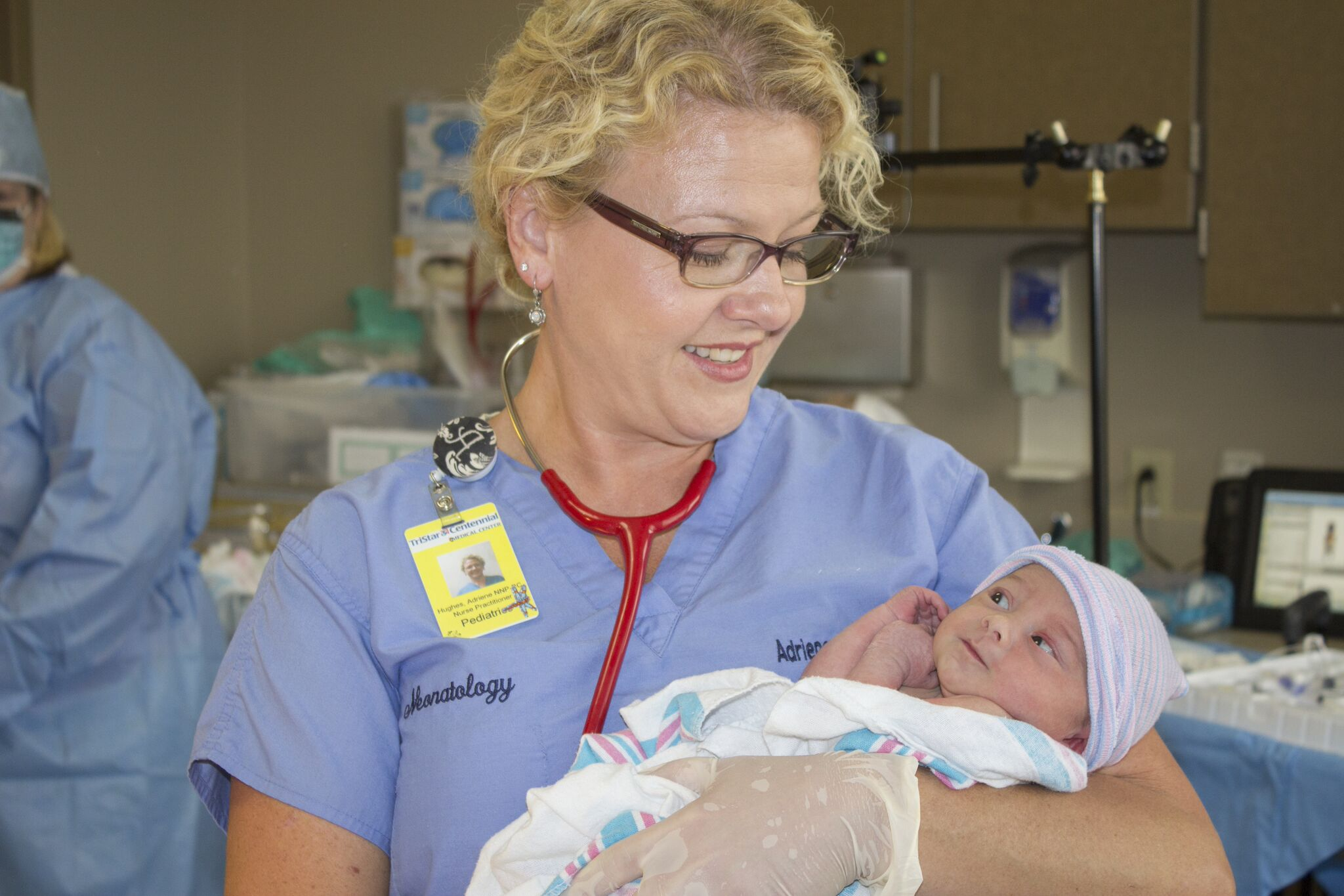 An NNP assisting in the care of a newborn infant at a high risk delivery.